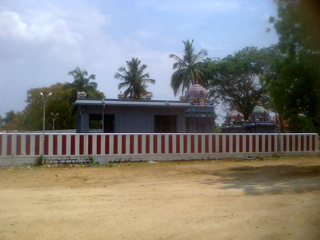 அகரம் பாலமுருகன் கோயில்